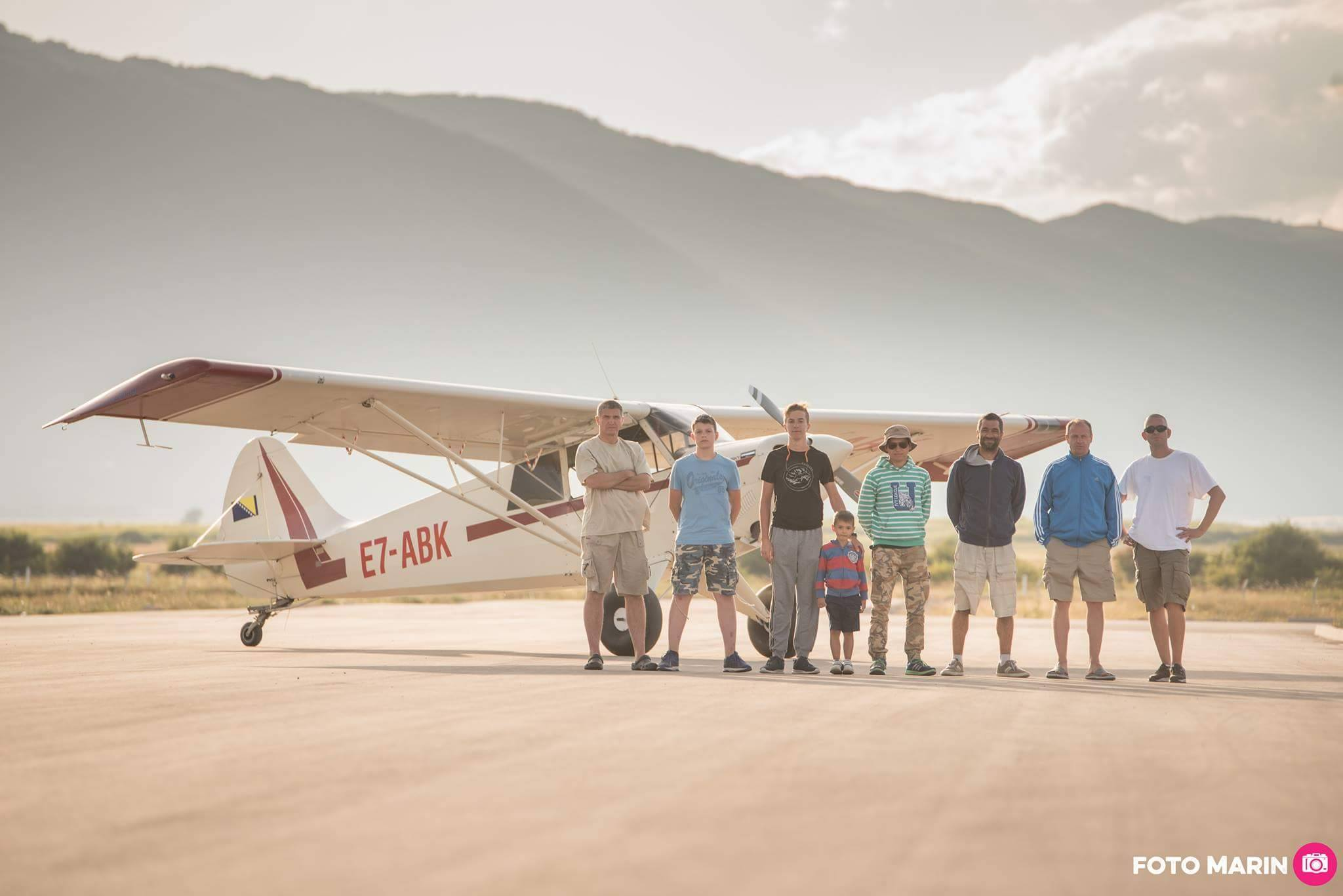 Memebrs